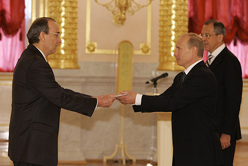 GRAND KREMLIN PALACE, MOSCOW. Ambassador of the Republic of El Salvador presents his letter of credentials to the President.